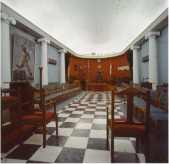 Photo taken Dec 9, 2012, this image shows the interior of the Masonic Lodge Hall in Nicosia, Cyprus. Grand Lodge of Cyprus.